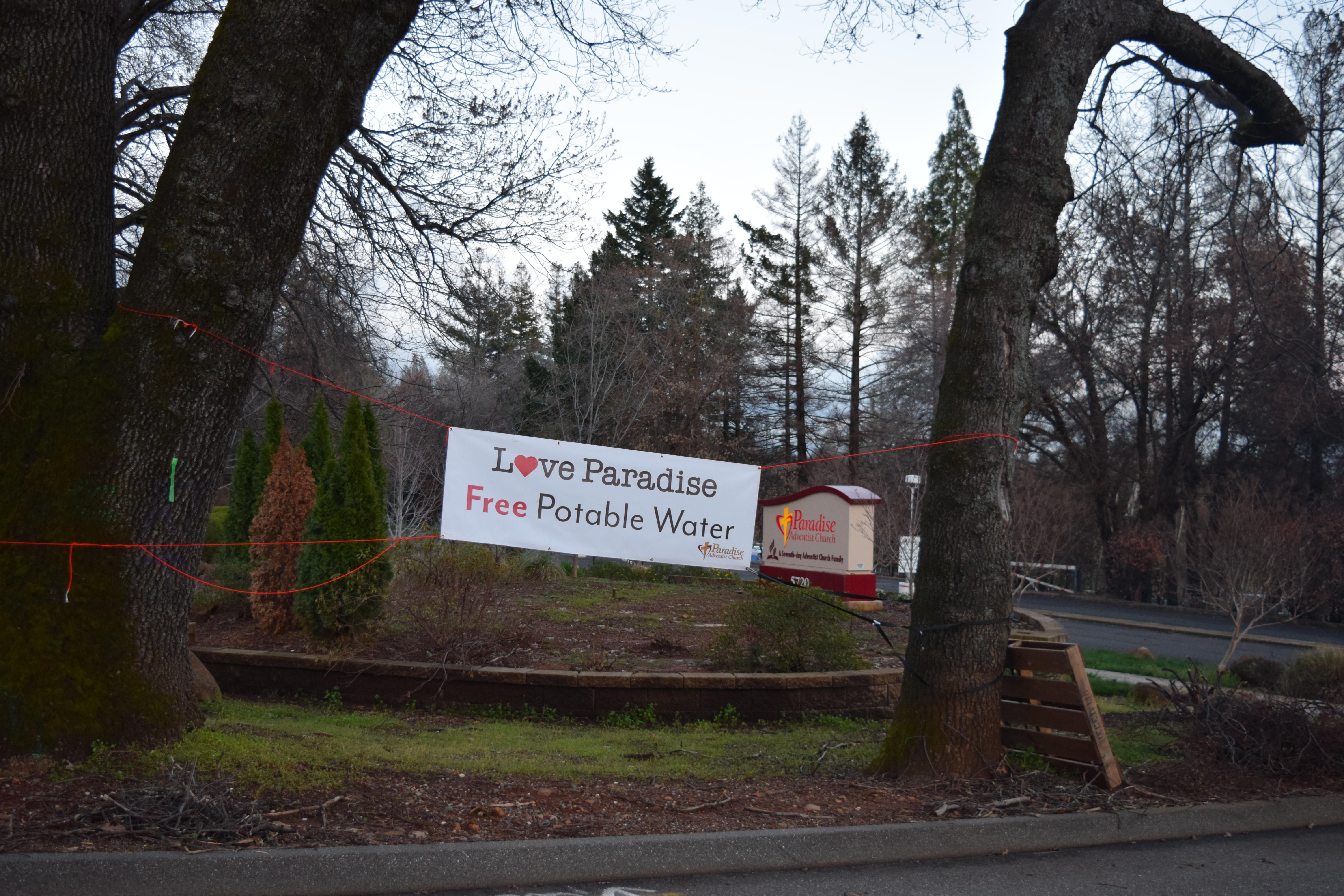 Paradise 7th Day Adventist free potable water sign, March 27, 2019